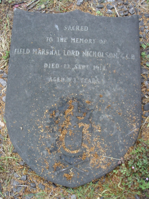 Stele funéraire de William Nicholson, 1st Baron Nicholson